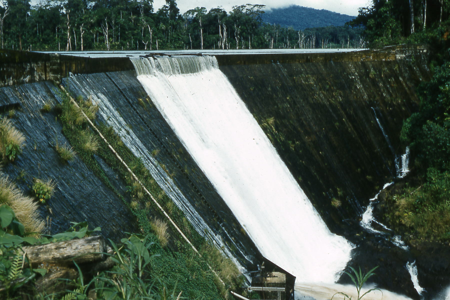 Ei River Dam and Ei River Hydro Electric Plant for the La Luz Gold Mine complex (1936-1968) in Nicaragua ca 1959 which supplied all of the hydro electric power for the mines and region. The town of Siuna, Nicaragua was the site of La Luz Mining company, which was active from 1936 to 1968. There was migration from other areas of the country to work in the gold mine during these years, including people from the coast and indigenous groups. The mine was shut down in 1968 due to damage of the Ei River Hydro Electric Plant.[1]